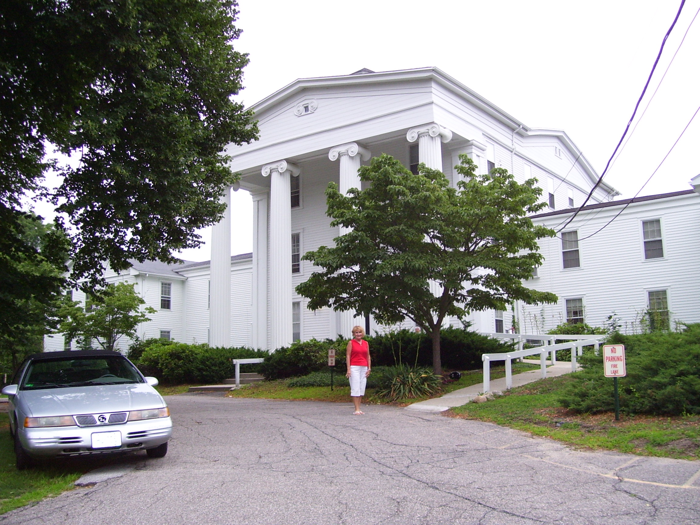 This is my 2008 photo of the Smithville Seminary in Scituate, Rhode Island.